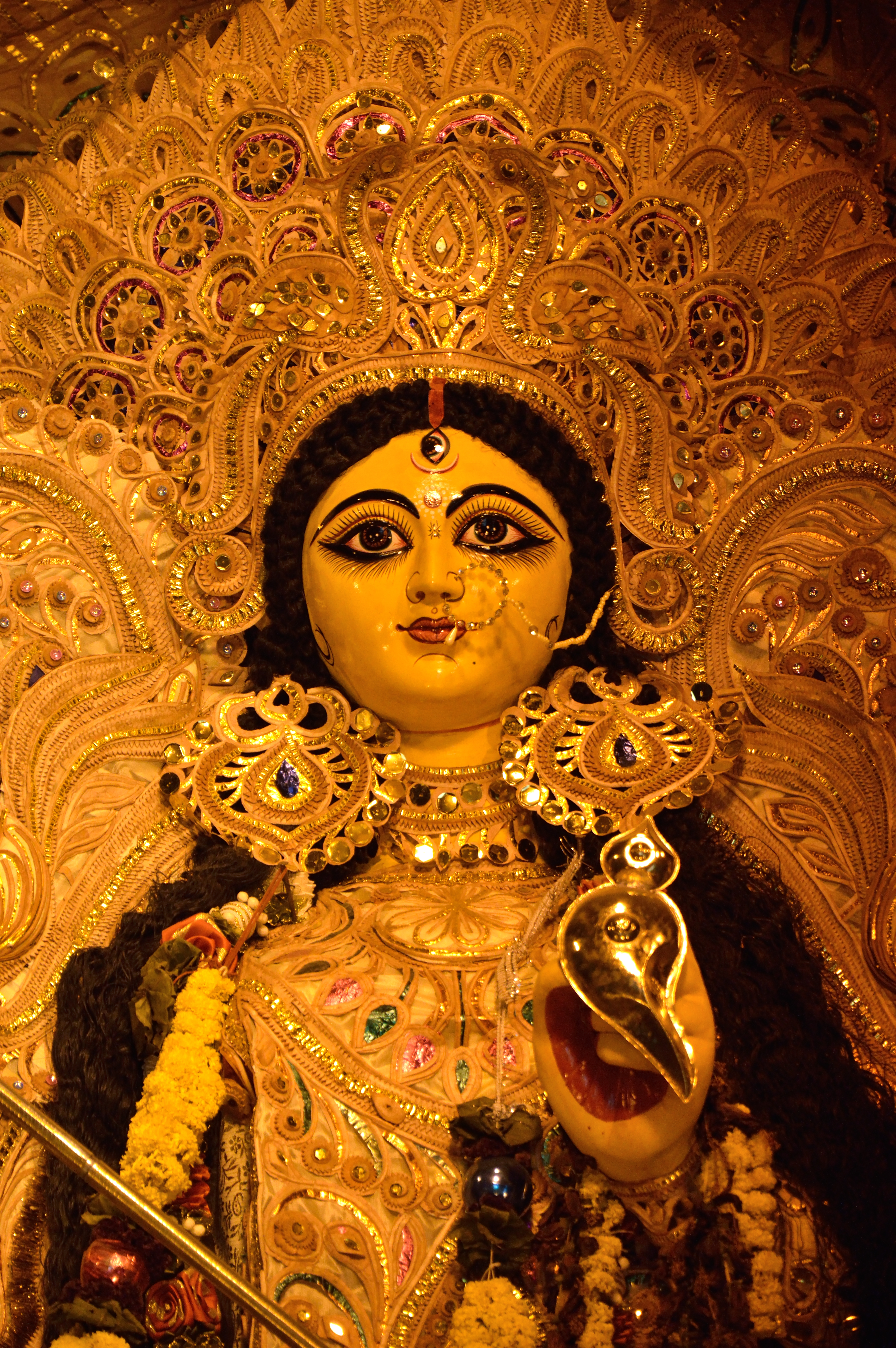 Photographed during the Durga Puja festival in Kolkata, West Bengal.